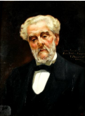 Retrat de Víctor Balaguer (1900)